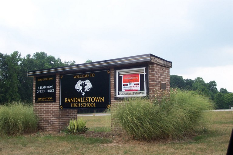 Randallstown High School sign, purchased by the class of 1990.